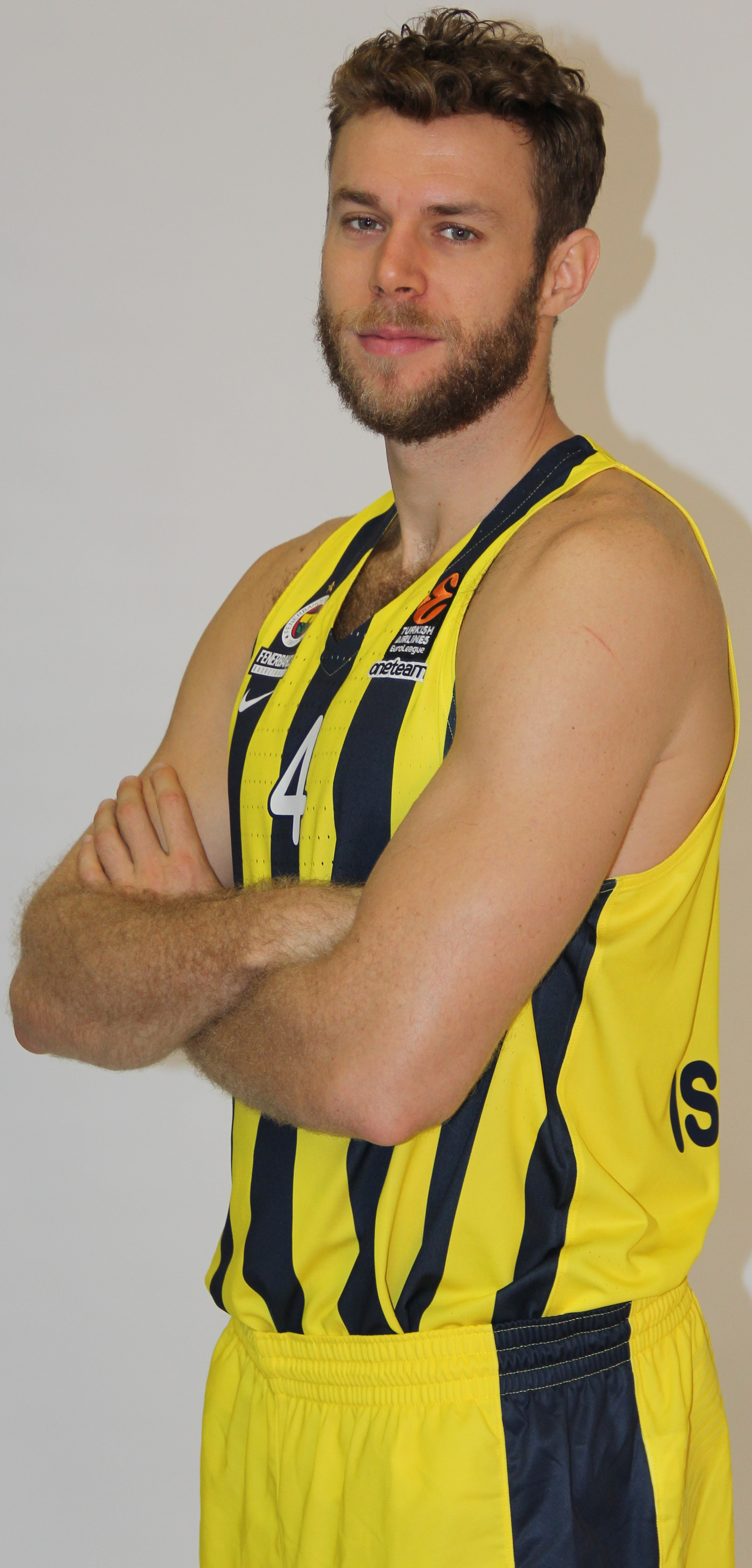 Nicolò Melli Fenerbahçe Basketball Media Day 20180925